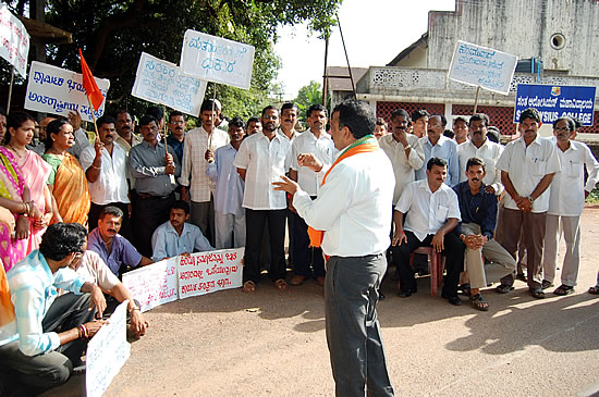 A photograph of Bajrang Dal members protesting outside the gates of St. Aloysius College, Mangalore. The college had taken a holiday the previous day in protest of the atrocities being committed against the Christians in Orissa.